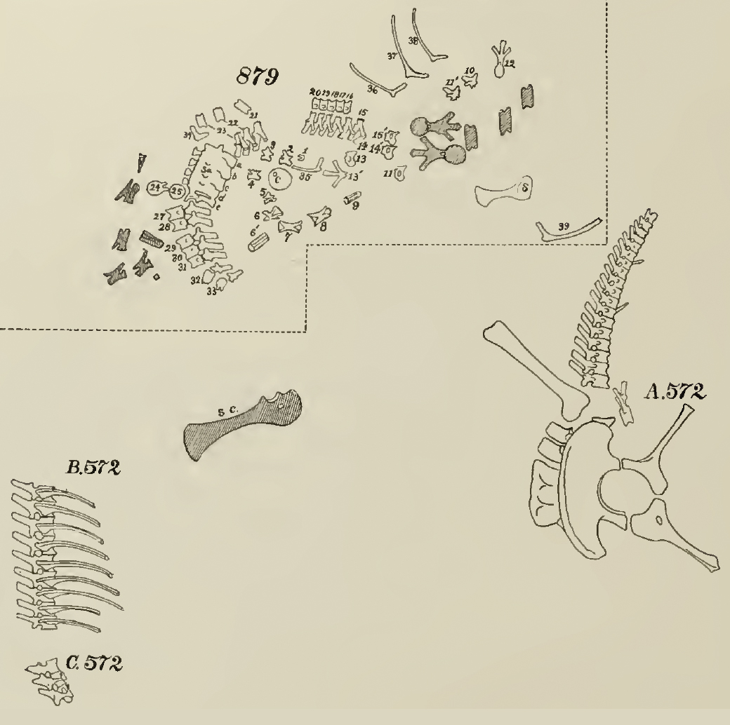 Diagram of west end of that portion of bone quarry near Canyon City, Colo., worked by W. H. Utterback, showing the positions in which the types of Haplocanthosaurus priscus (No. 572, A, B, C) and H. utterbackii (=H. priscus; No. 879) were found. The shaded bones pertain to a different genus. A. 572 femur, pelvis, sacrum and nineteen anterior caudals ; B. 572 nine posterior dorsals ; C. 572 first dorsal and last two cervicals.